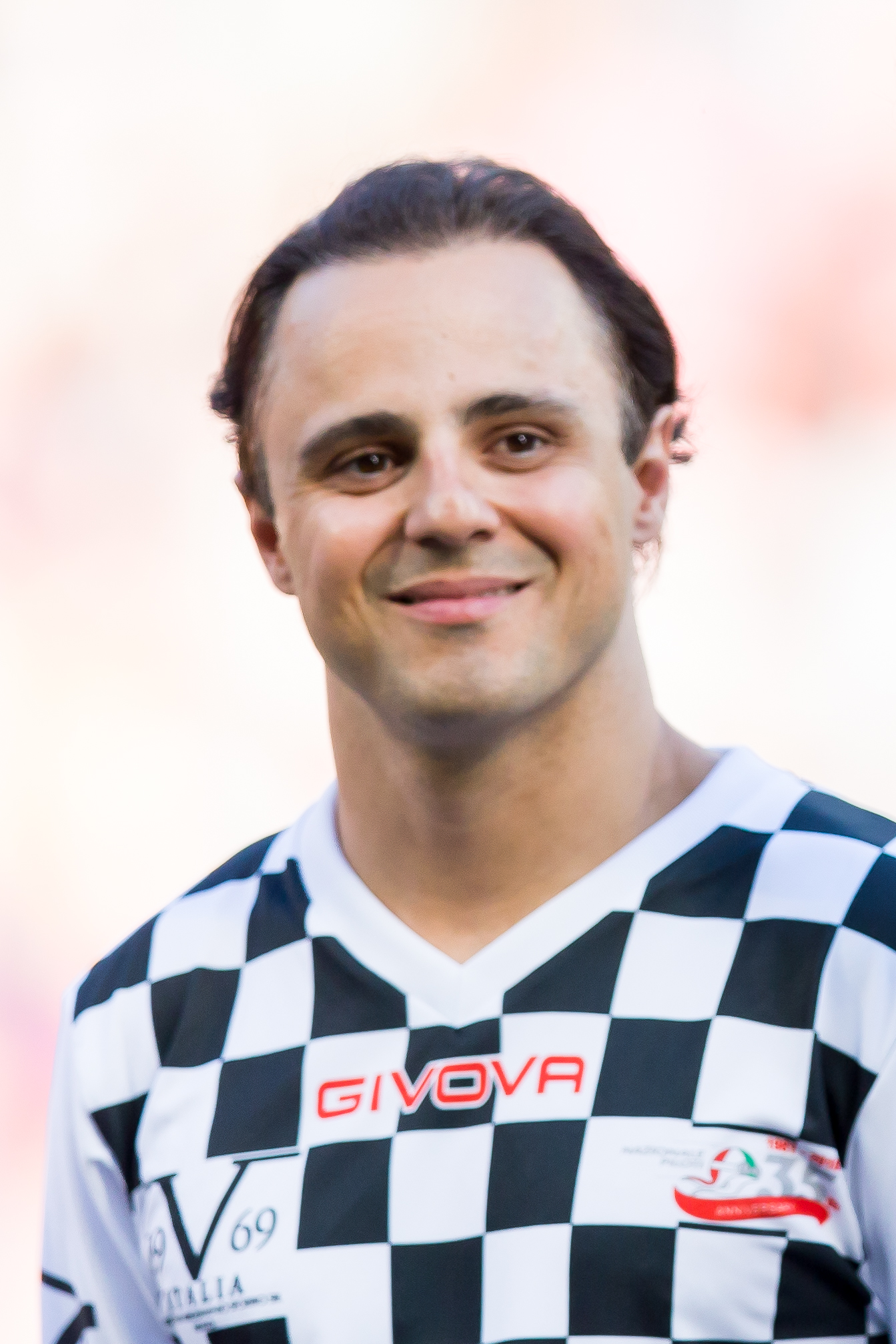 during football match between Nowitzki All Stars and Nazionale Piloti in honor of Michael Schumacher at Opel Arena, Mainz, Rheinland Pfalz, Germany on 2016-07-27, Photo: Sven Mandel